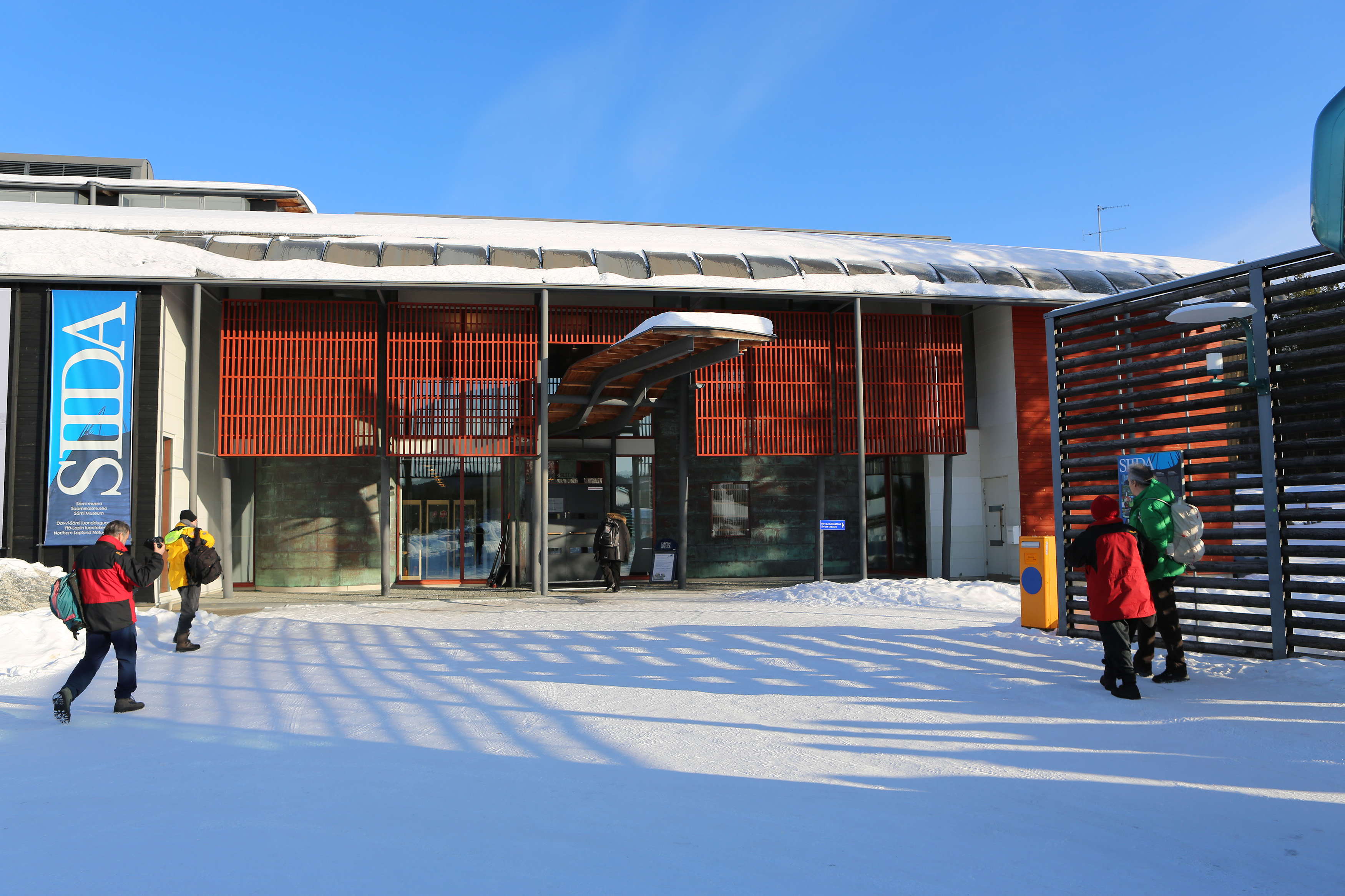 Siida museum, dedicated to the history and culture of the Sámi people, in Inari, municipality of Inari, Finland.